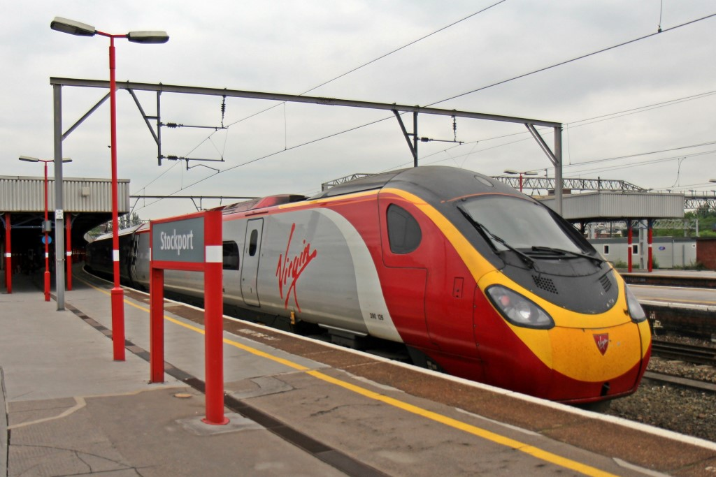 Virgin Class 390, 390126 "Virgin Enterprise", Stockport railway station